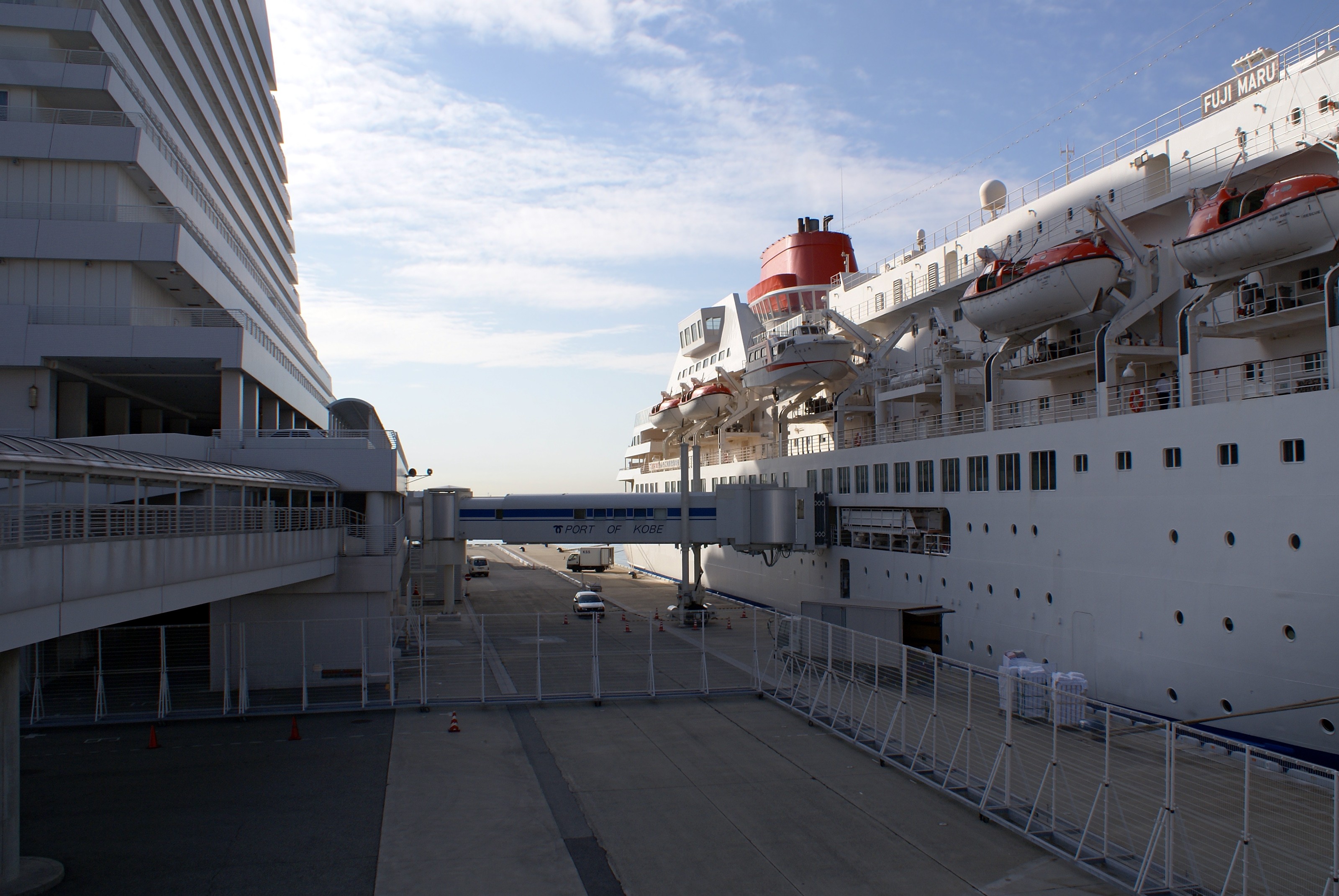 "Fuji Maru" who anchors at the wharf "Nakatottei" of the Kobe harbor (Kobe, Hyogo prefecture, Japan)